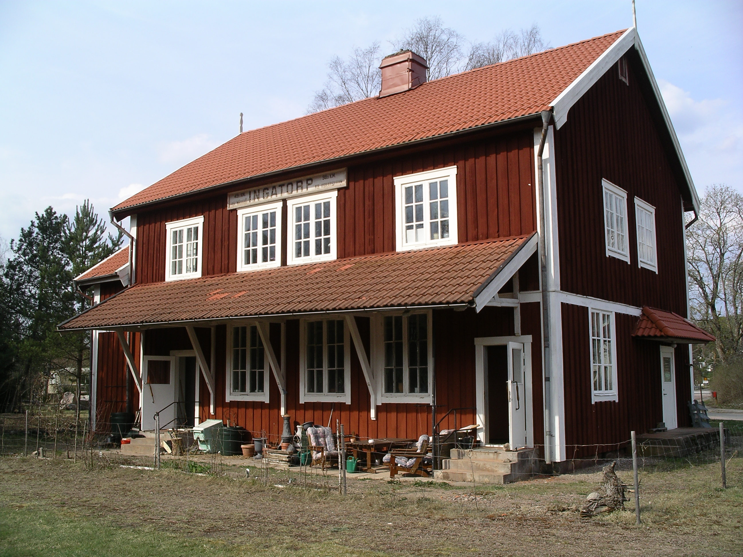 Previous Railway station Ingatorp in Sweden